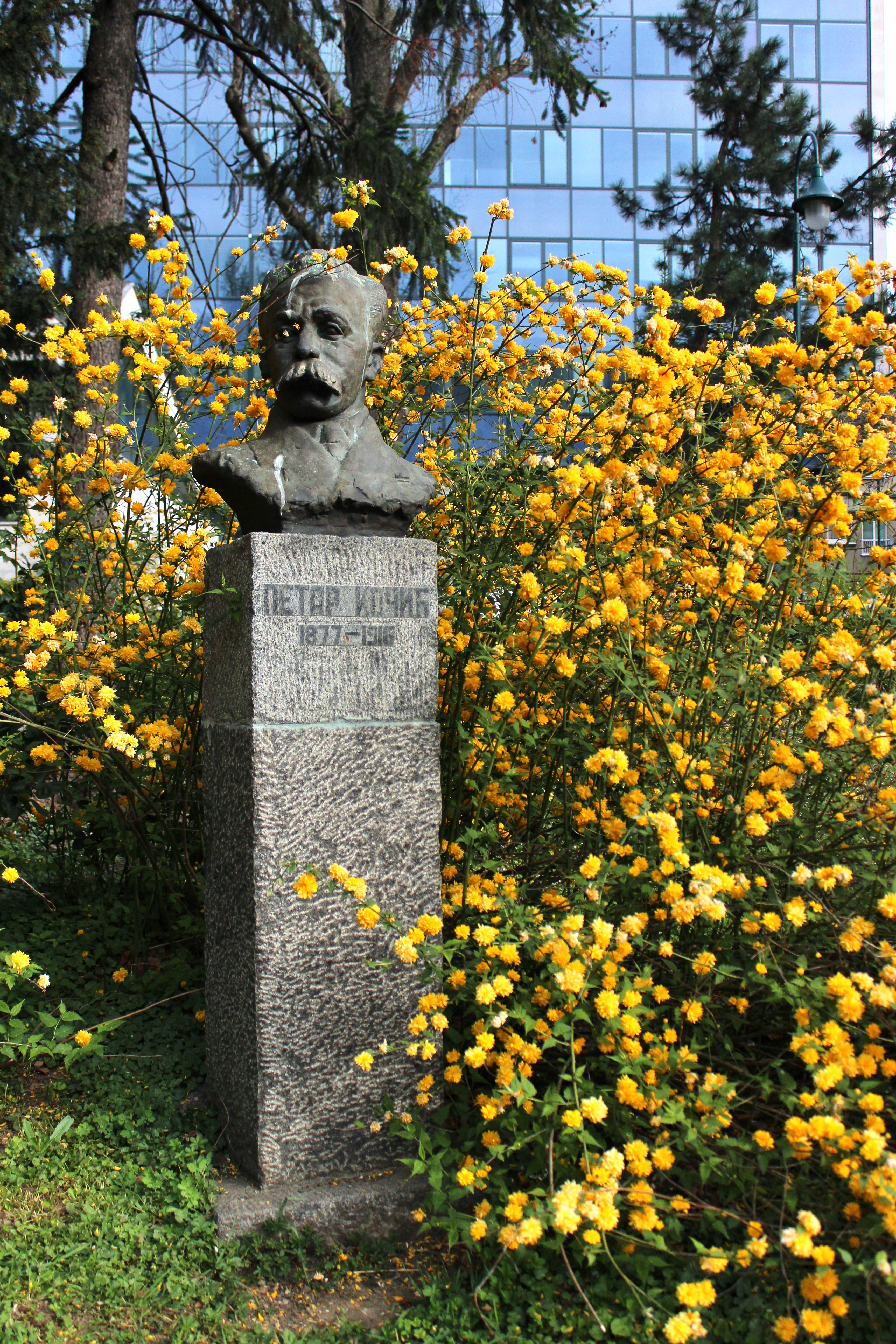 An old sculpture of Petar Kočić (Петар Кочић), a Bosnian Serb writer who lived 1877–1916, in Little Park.